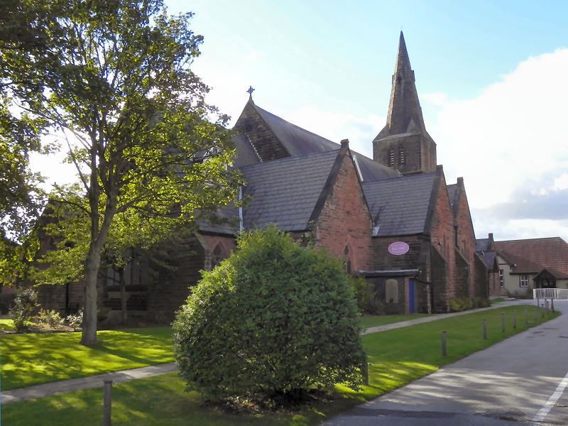 Photograph of St James' Church, Birkdale, Southport, Merseyside